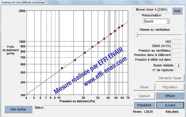 After a BlowerDoor test, this document comes from the software Tectite. The curve represents the leak-flow according to the differential of pressure.